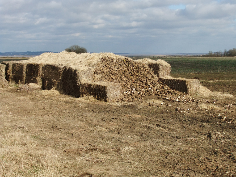 Beet clamp near Alkborough. Photo taken from the Whitton Road.